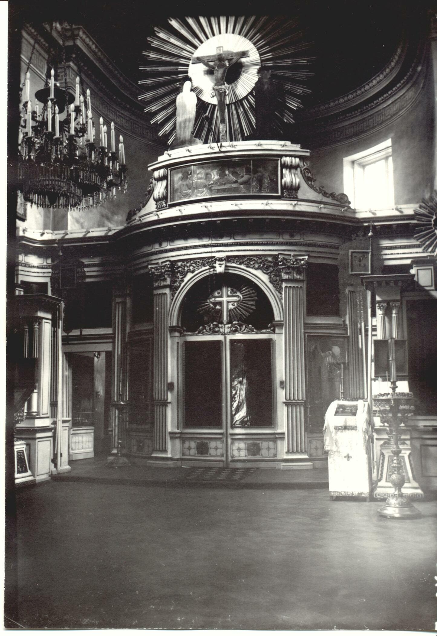 Pavlovsk (Russia)